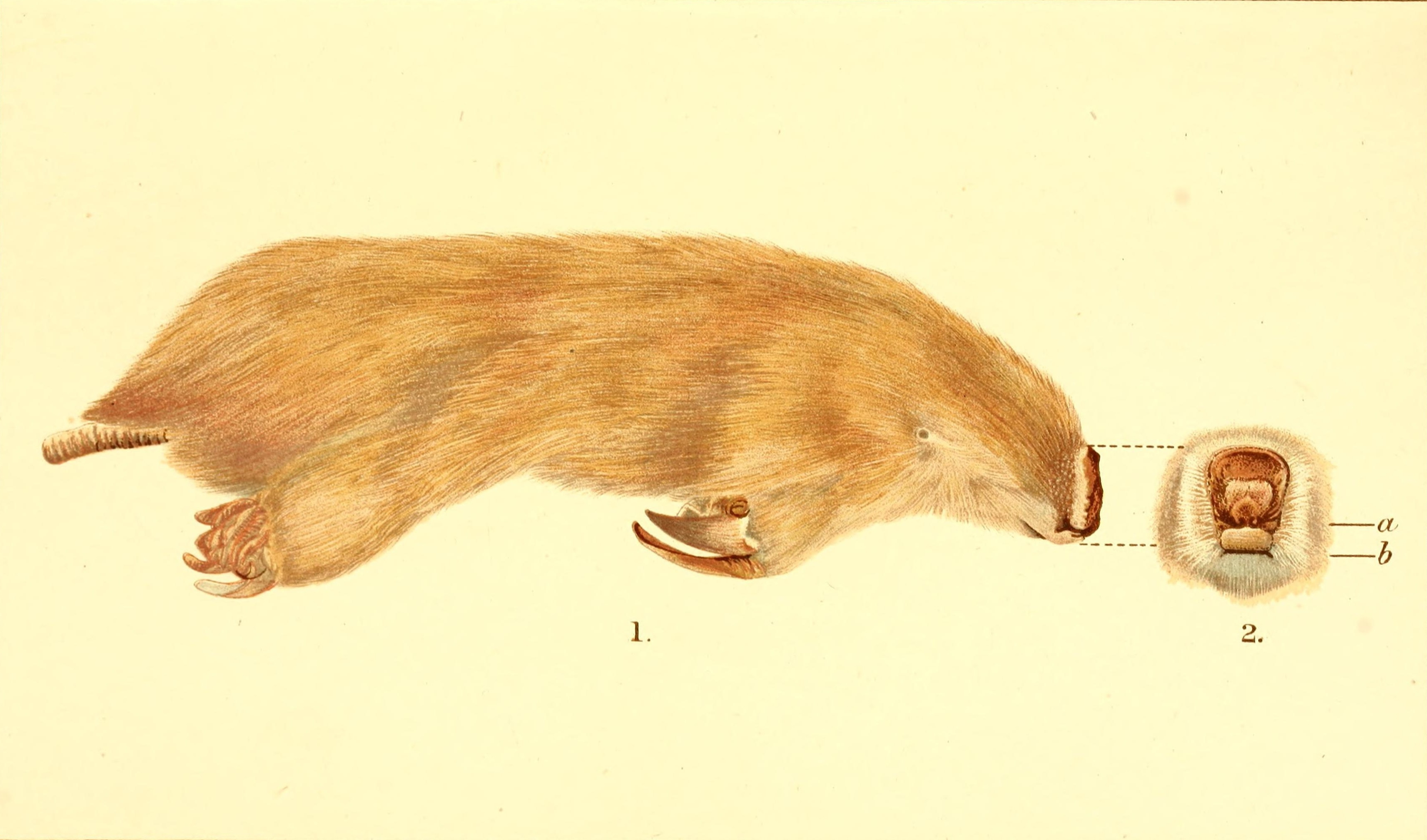 The southern marsupial mole (Notoryctes typhlops).